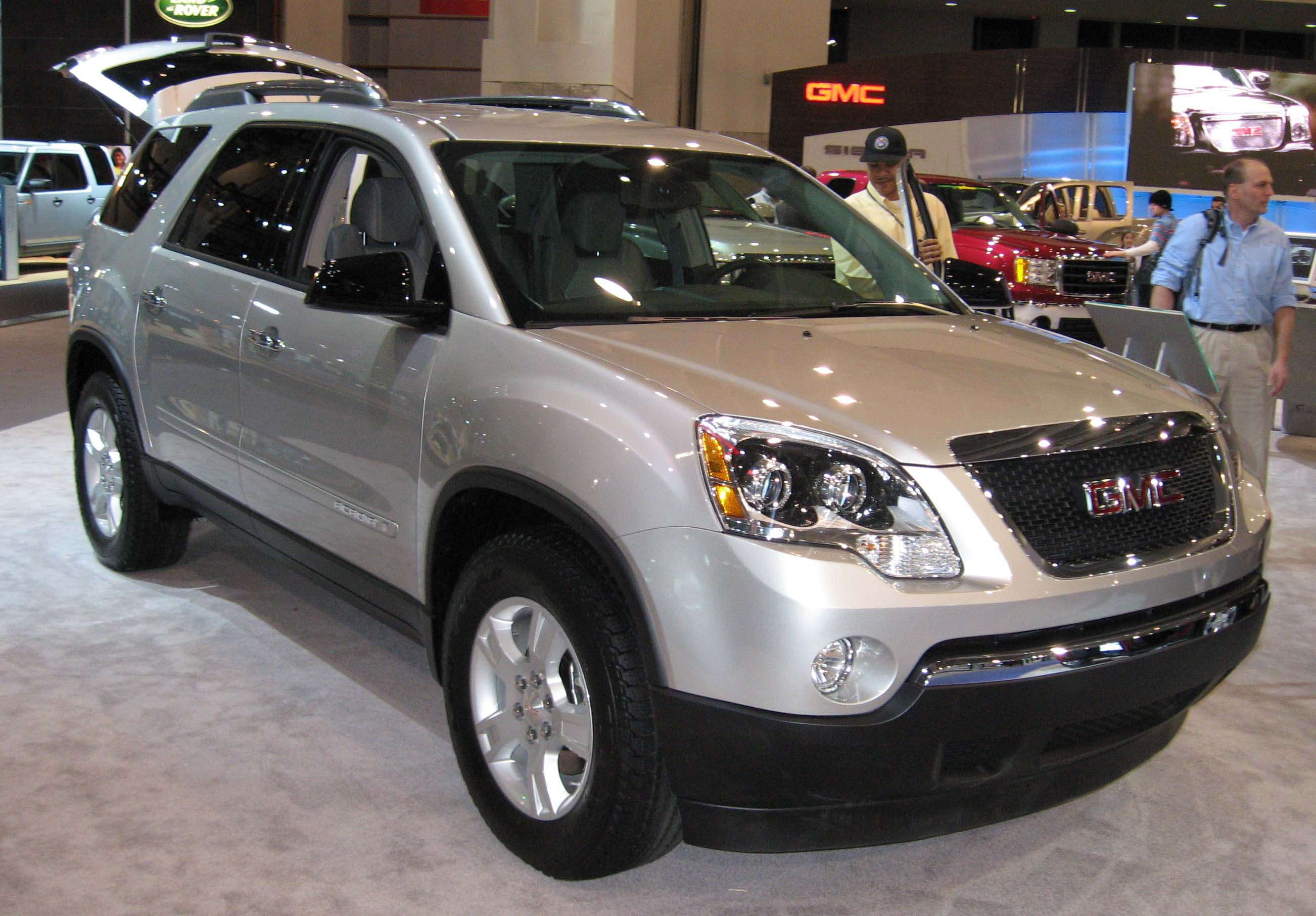 2007 GMC Acadia photographed at the Washington Auto Show.